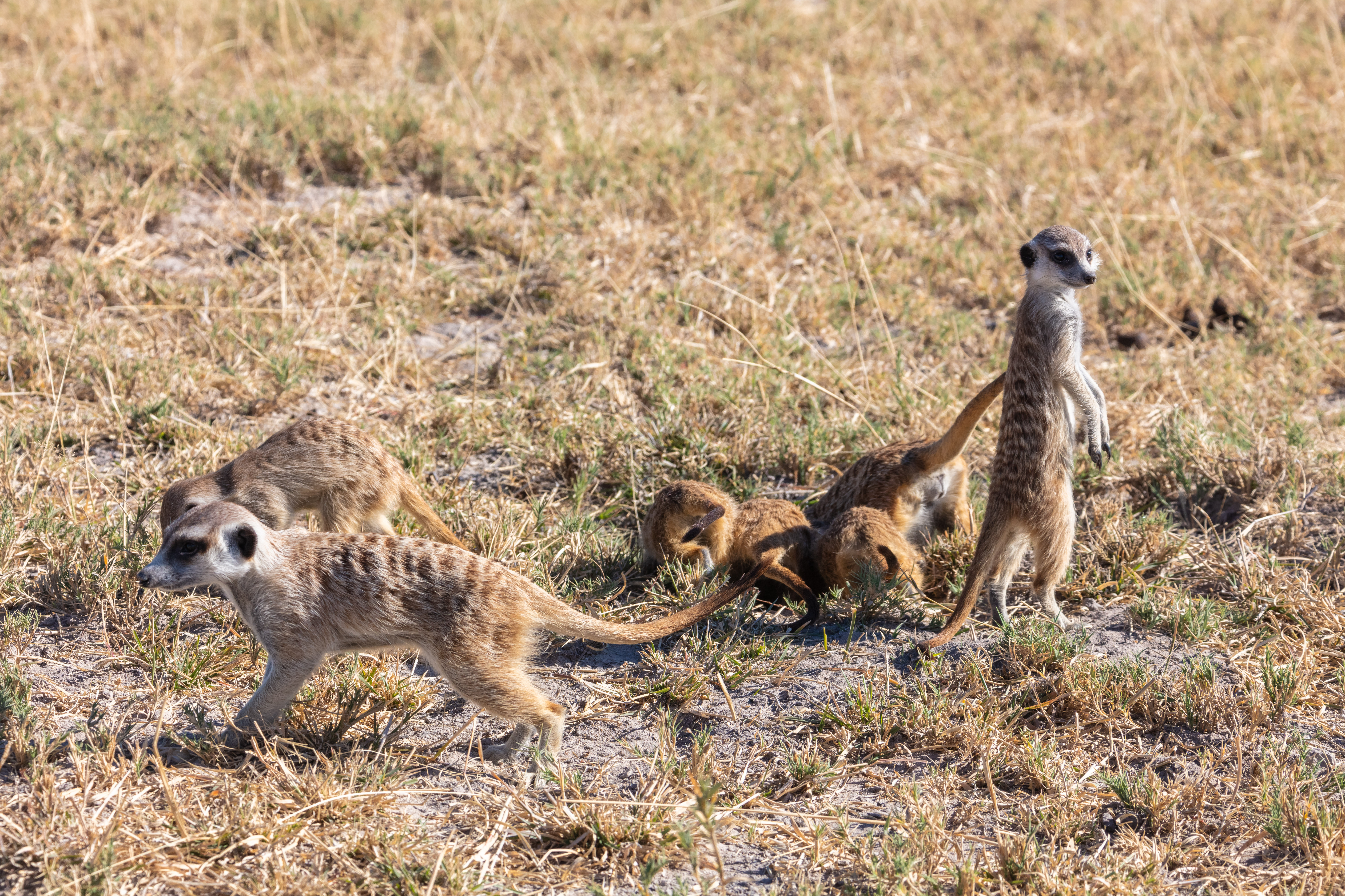 Meerkats (Suricata suricatta), Makgadikgadi Pans National Park, Botswana